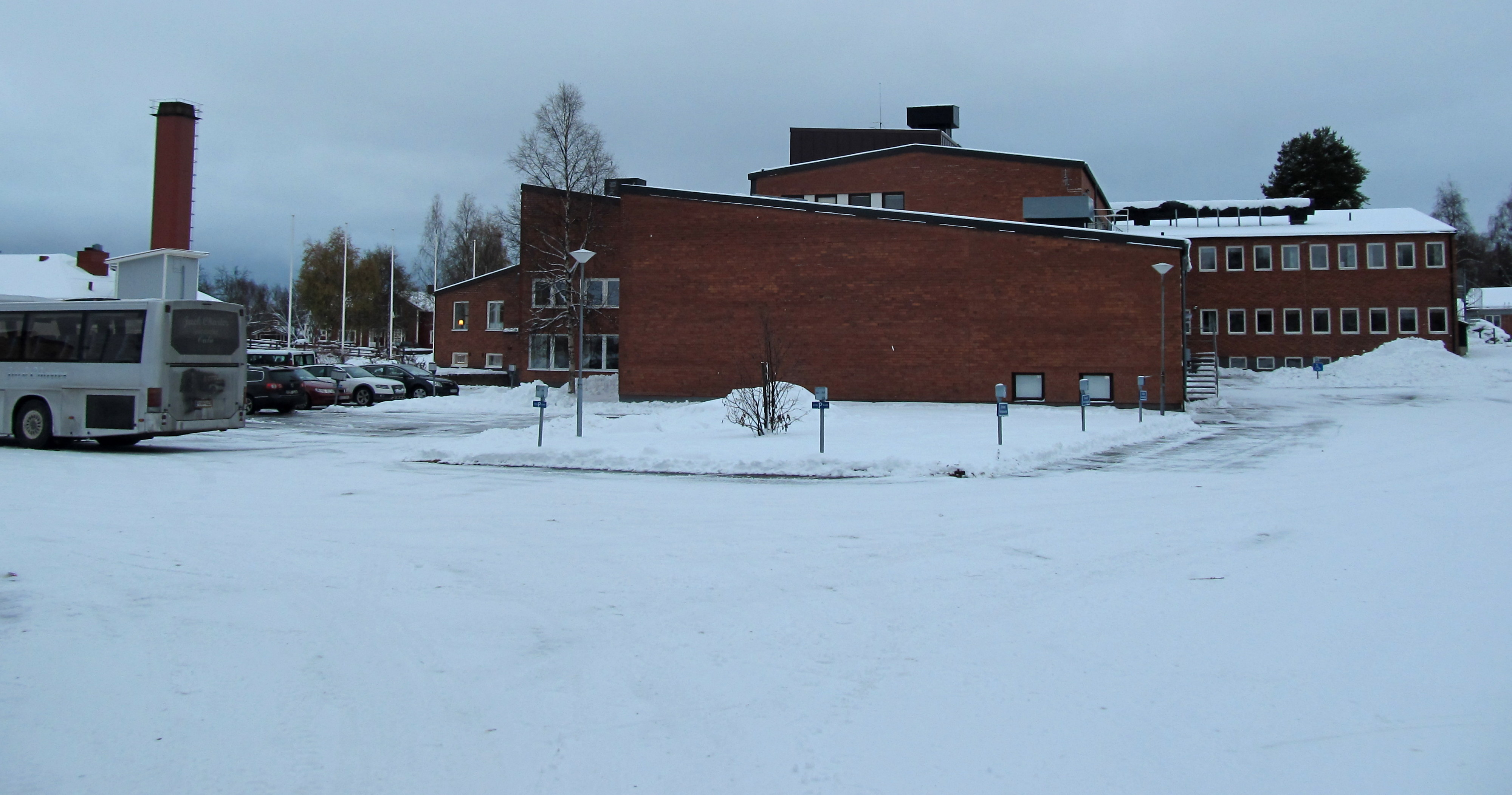 Kalix Folkhögskola/College